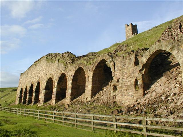 Calcining Kilns, Rosedale East Ironstone Mine. These stone kilns date from 1864. Further north there is the remains of later iron kilns.